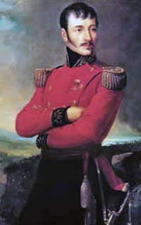 Portrait of General José Antonio Anzoátegui